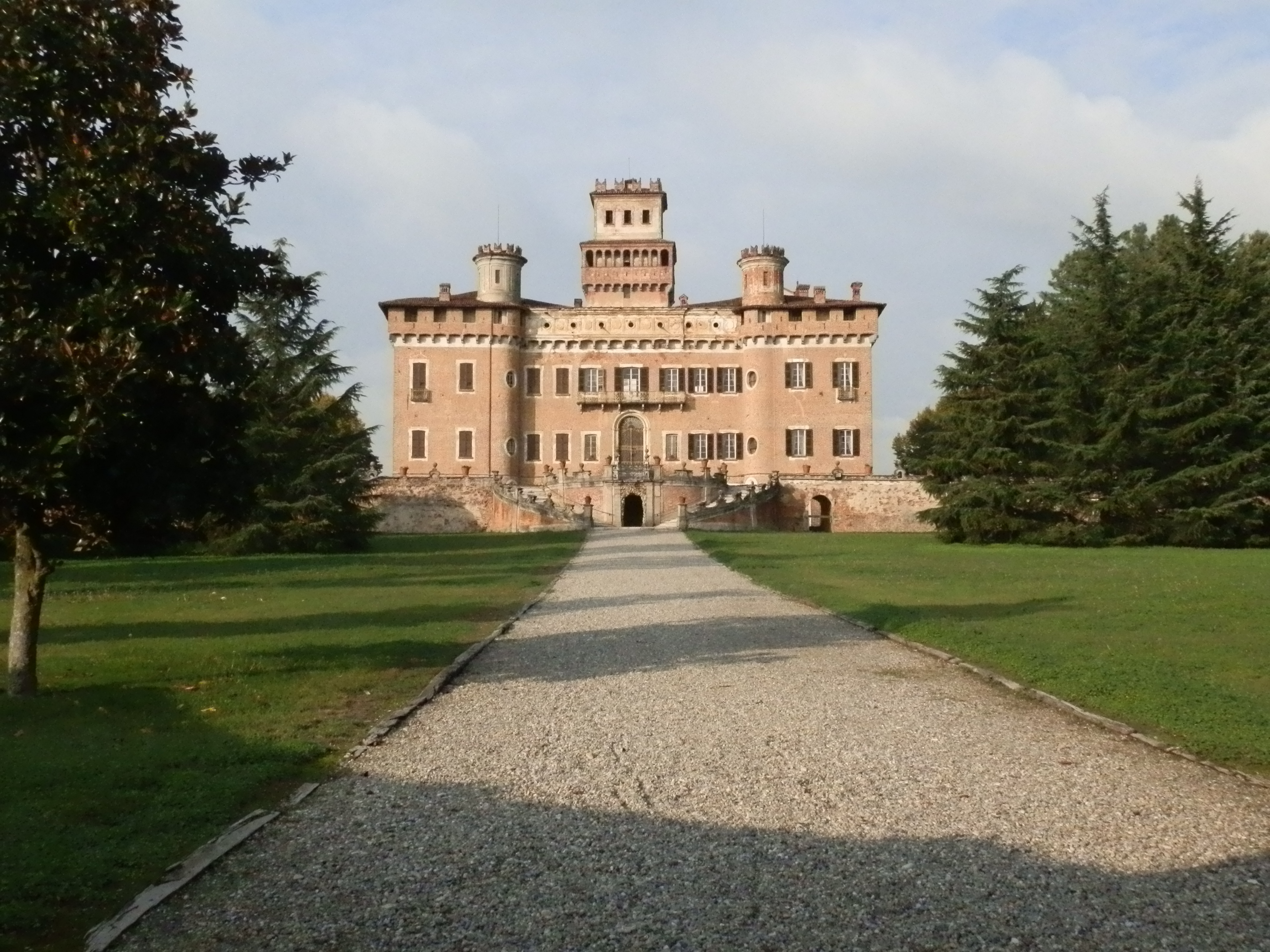 Castle chignolo po